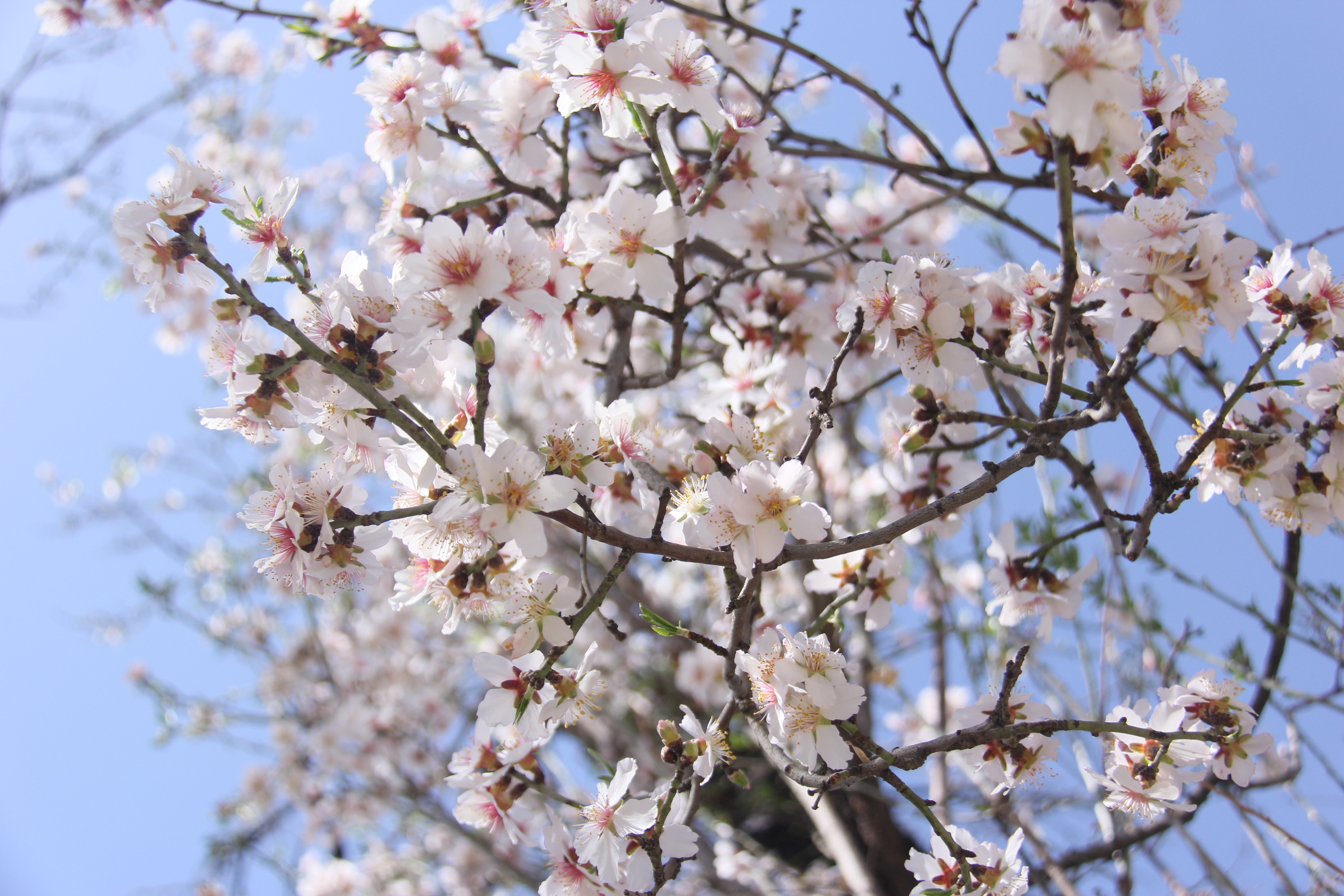 Almond Blossom, Meymand, Iran